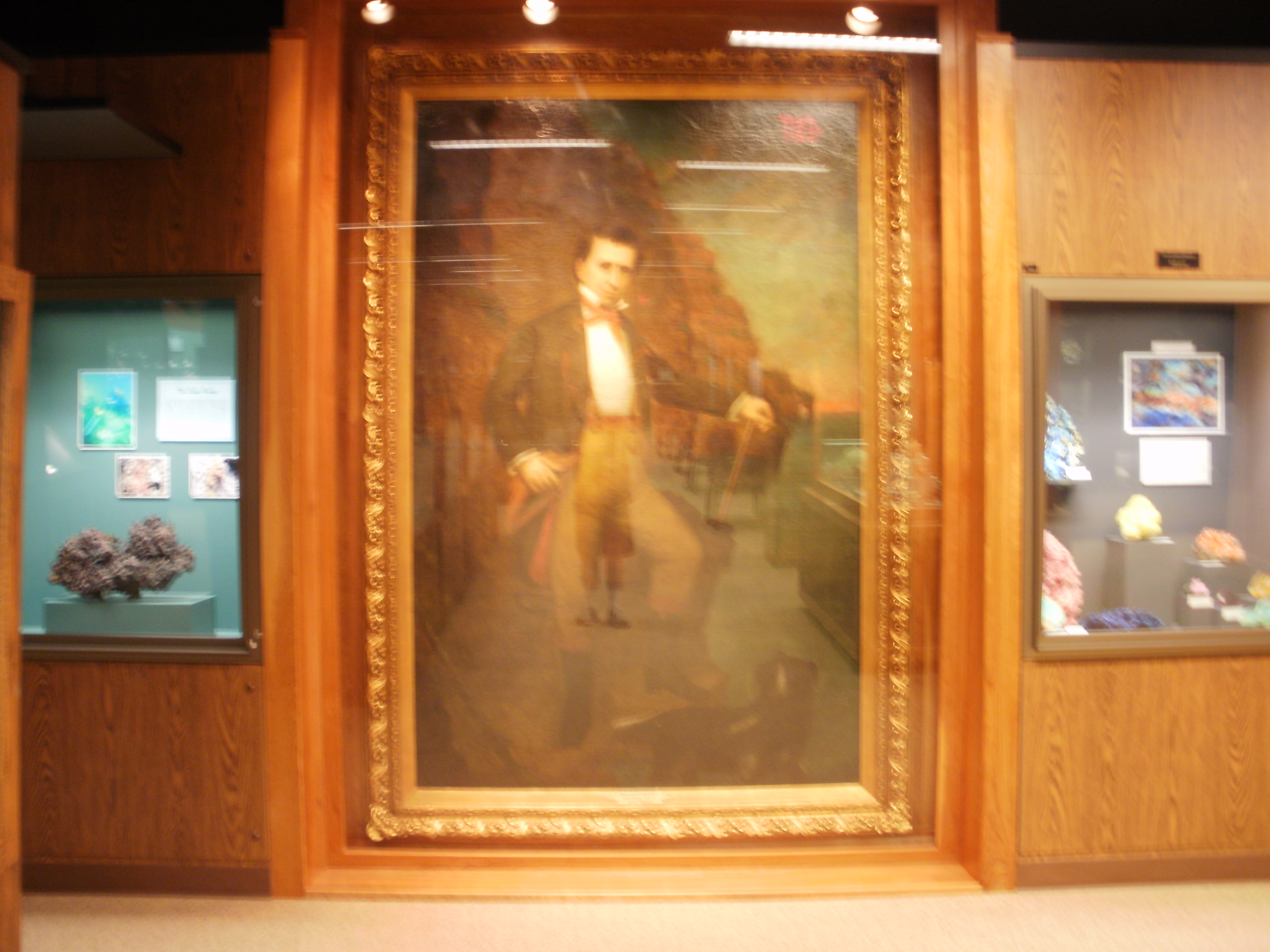 A portrait of Douglass Houghton by brother-in-law Alvah Bradish in the A. E. Seaman Mineral Museum. "This portrait shows Houghton, dressed in the garb of a field geologist, standing before the Pictured Rocks of Lake Superior with his faithful spaniel, Meeme" (p. 13, DOUGLASS HOUGHTON MICHIGAN’S FIRST STATE GEOLOGIST 1837 - 1845, by Helen Wallin). The portrait was purchased by the Michigan Legislature in 1879